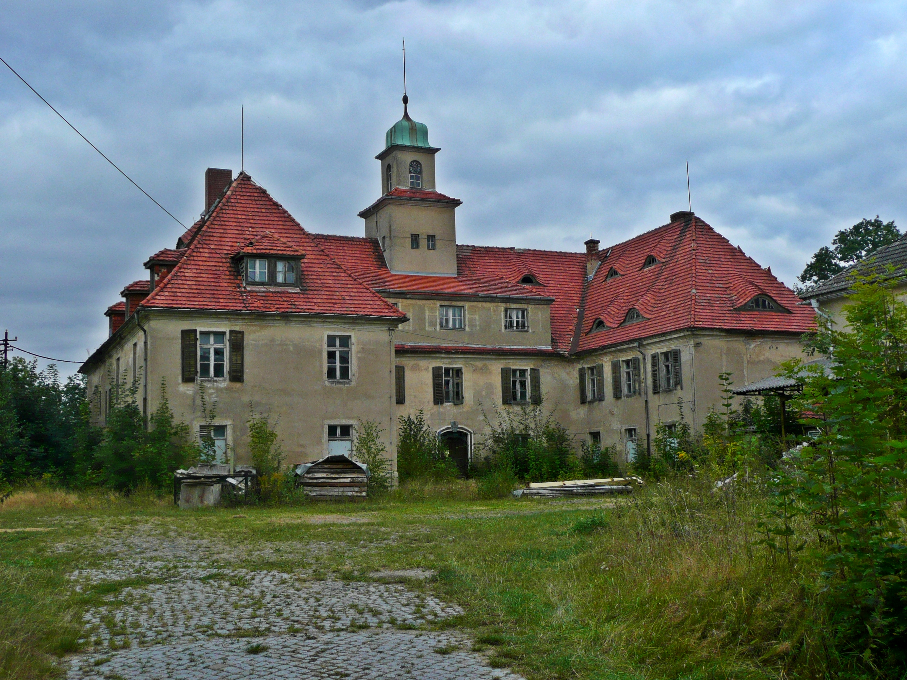 This image shows the manor house (built 1742) in Rennersdorf-Neudörfel near Stolpen in Saxony.